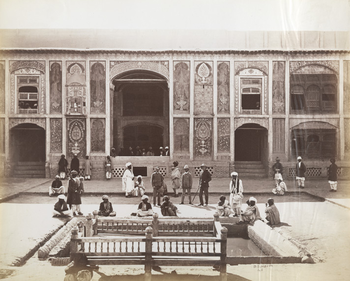 "Courtyard of Wali Shere Ali's zenana [Kandahar]. Photograph of the courtyard of Wali Shere Ali's Zenana in Kandahar from the 'Bellew Collection: Photograph album of Surgeon-General Henry Walter Bellew' taken by Sir Benjamin Simpson in c.1881. Kandahar is the second largest city in Afghanistan and is situated in the south of the region. Sher Ali, son of Dost Mahommed, was the Amir of Afghanistan from 1863 to 1879. This view shows the women's quarters or zenana in a royal residence at Kandahar. It is a two-storey structure organised around an open courtyard with a pool in the centre."